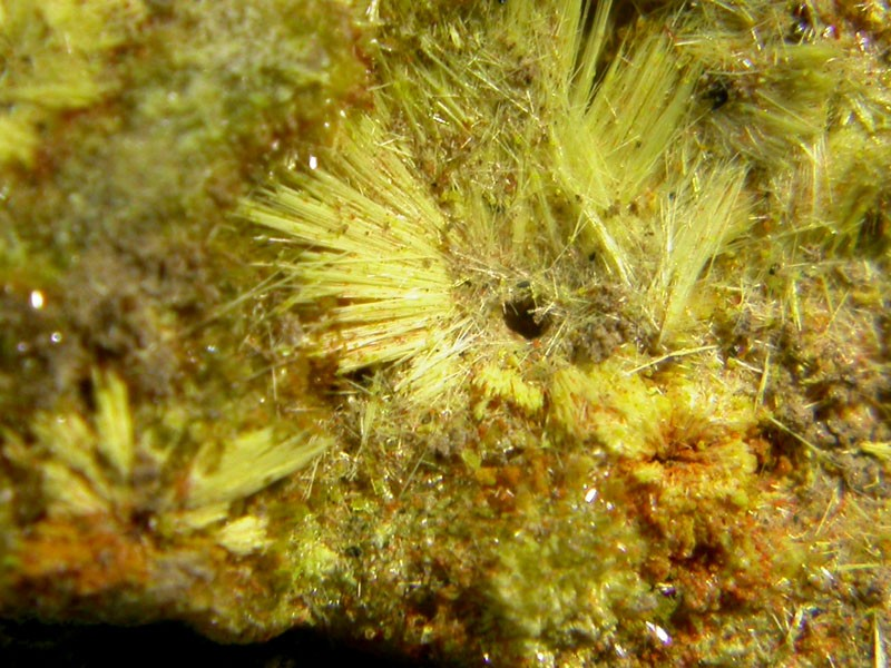 Studtite, Uranophane - alpha Locality: Shinkolobwe Mine (Kasolo Mine), Shinkolobwe, Central area, Katanga Copper Crescent, Katanga (Shaba), Democratic Republic of Congo (Zaïre) (Locality at ) Size: 2.6 x 2.2 x 1.0 cm. A small but extremely rich specimen of Uraninite covered with powdery, microcrystalline yellow Uranophane. On the Uranophane one can see a few straw yellow Studtite crystal clusters up to 4 mm in size. Shinkolobwe is the Type Locality for Studtite, a mine closed since decades.